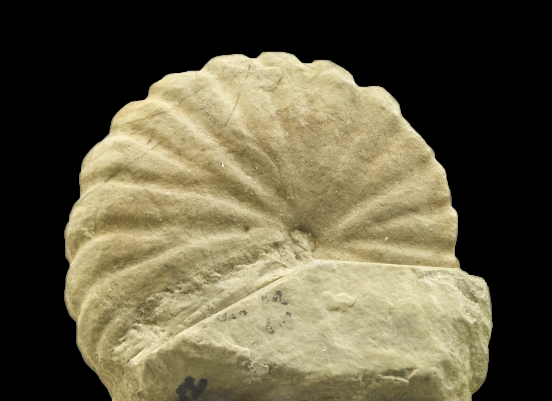 Pulchellia provincialis; Puezmergel, Barremian, Lower Cretaceous, Puez; Museum de Gherdëina, Urtijëi, South Tyrol, Italy.